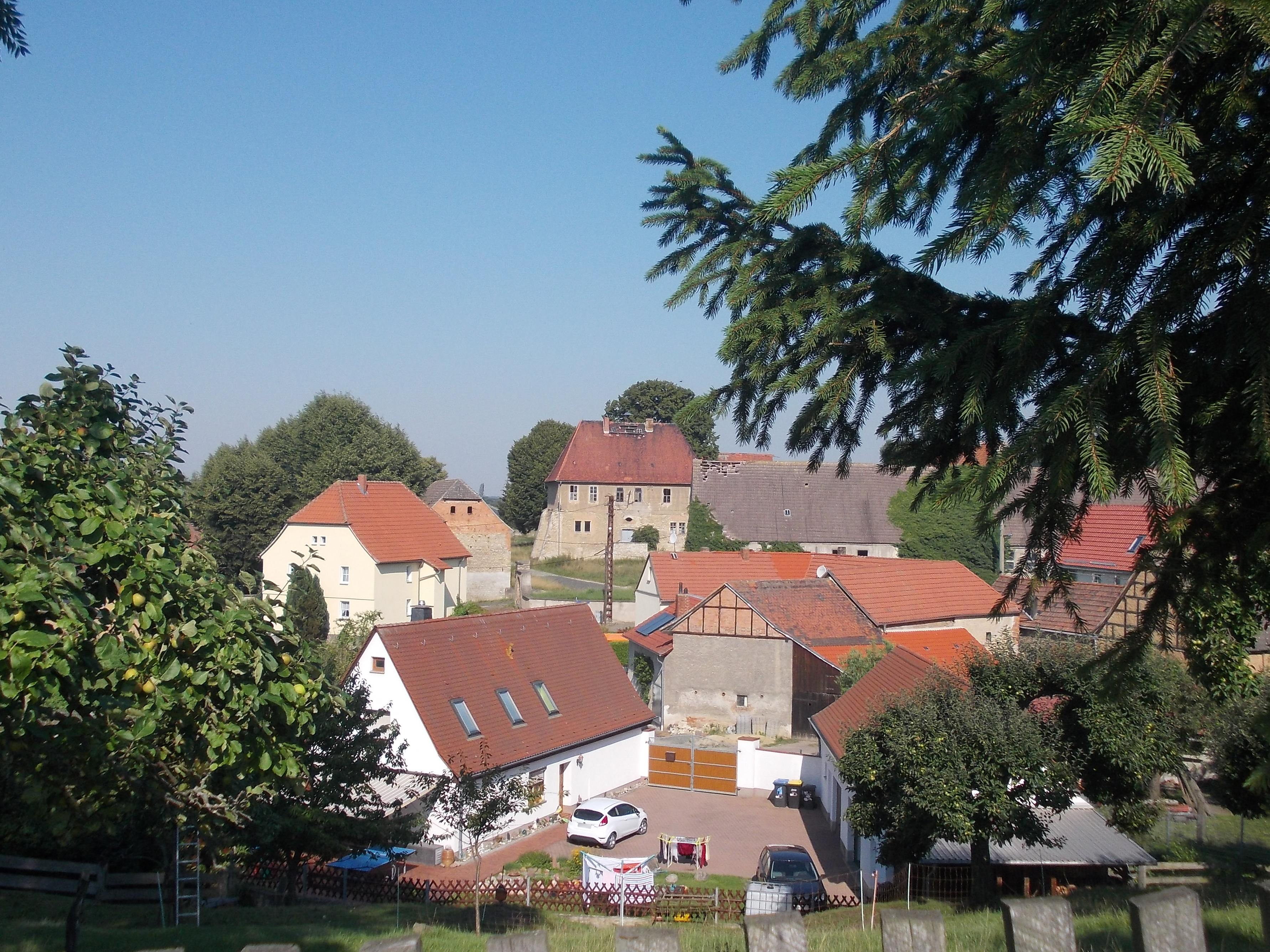 View of a part of Burgholzhausen (Eckartsberga, district: Burgenlandkreis, Saxony-Anhalt)